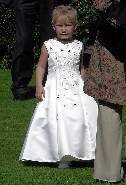 A young bridesmaid at a wedding in Thornbury Castle, Thornbury, near Bristol, England. Taken by Adrian Pingstone in September 2004 and released to the public domain.